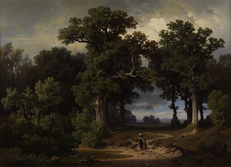 Landscape